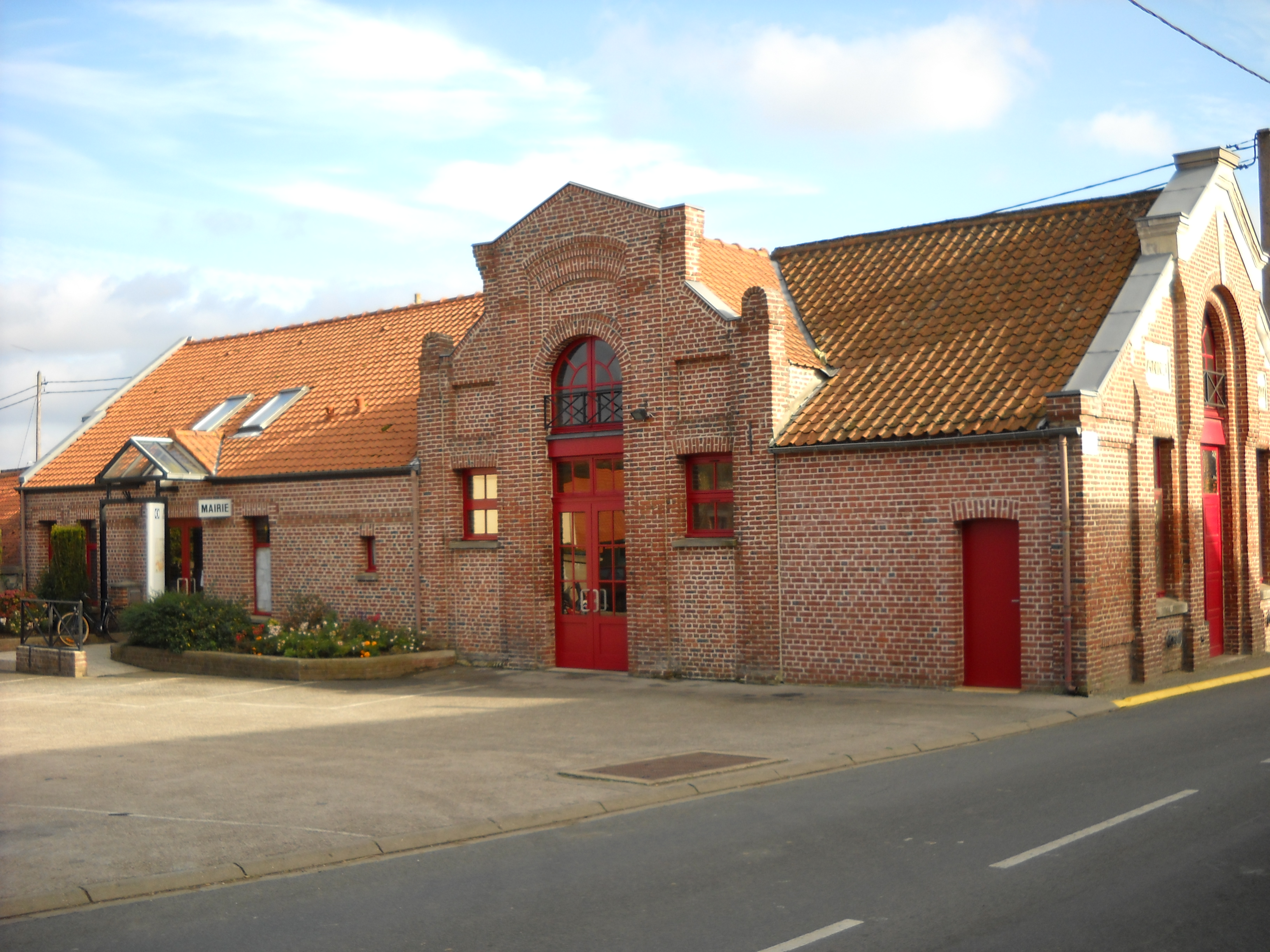 The Town Hall of Ham-en-Artois, Pas-de-Calais, France.